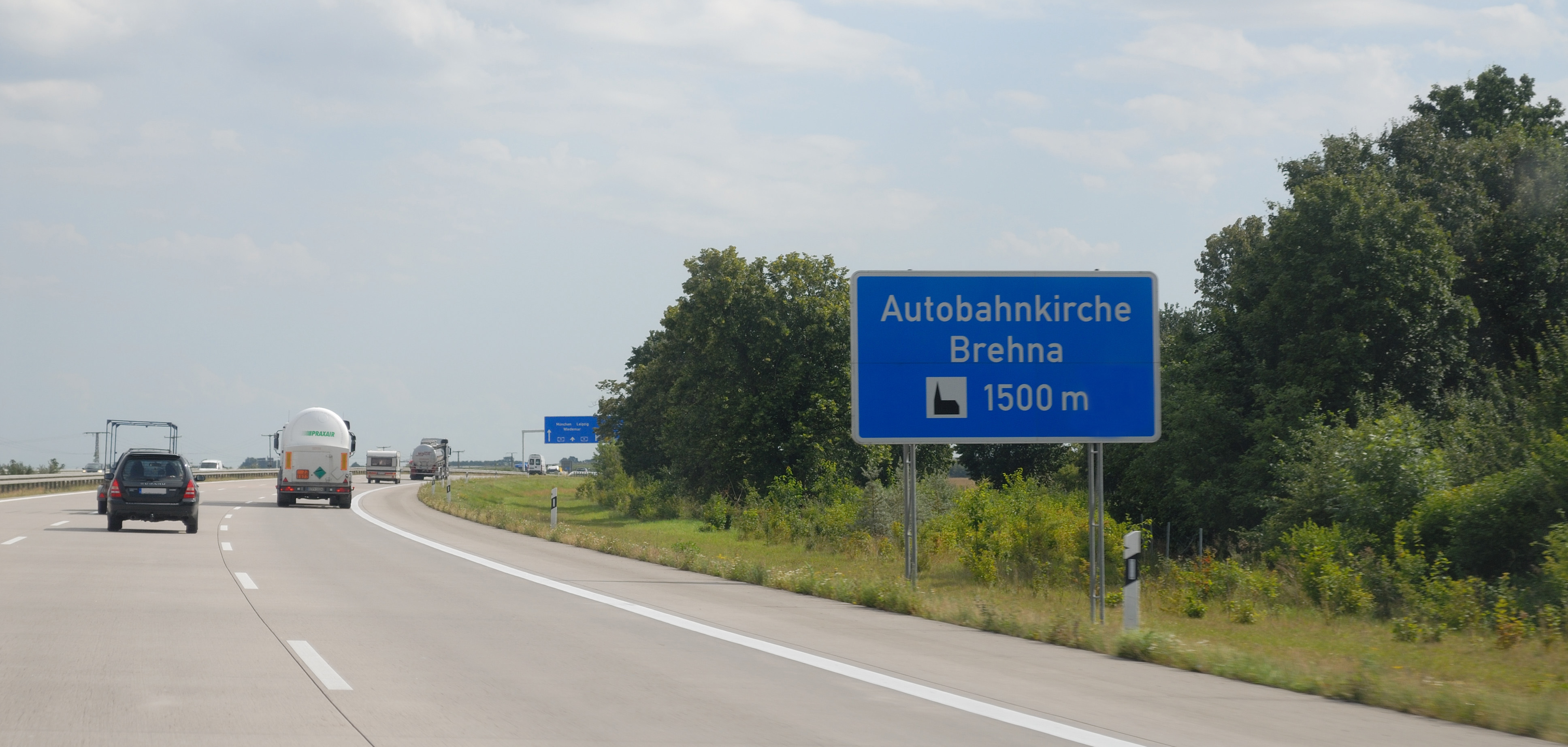 Road sign for the highway church Brehna. Road shot from A 9.